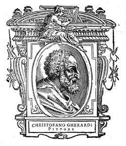 Illustratio from "Le Vite" by Giorgio Vasari, edition of 1568. For the artist portrayed see filename